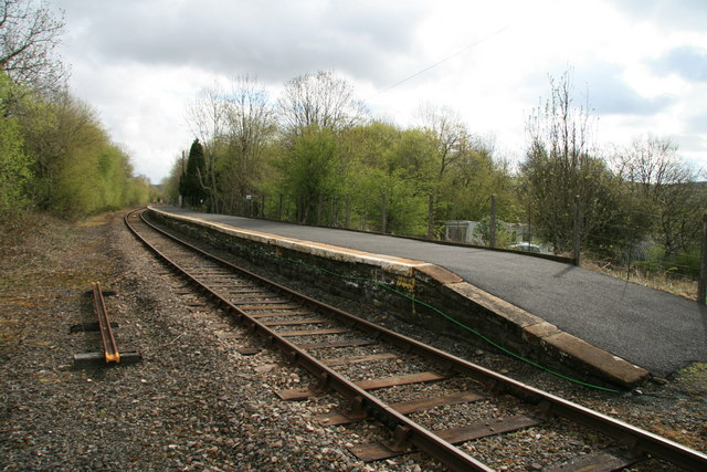 Cynghordy railway station